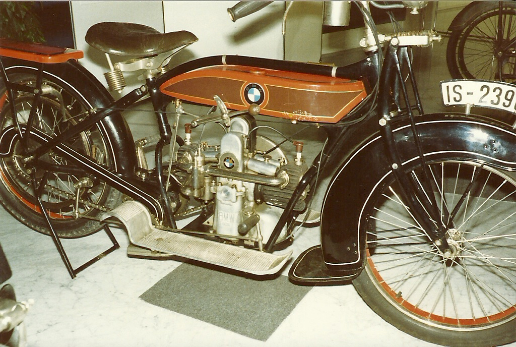 Helios (BMW) motorcycle from 1922